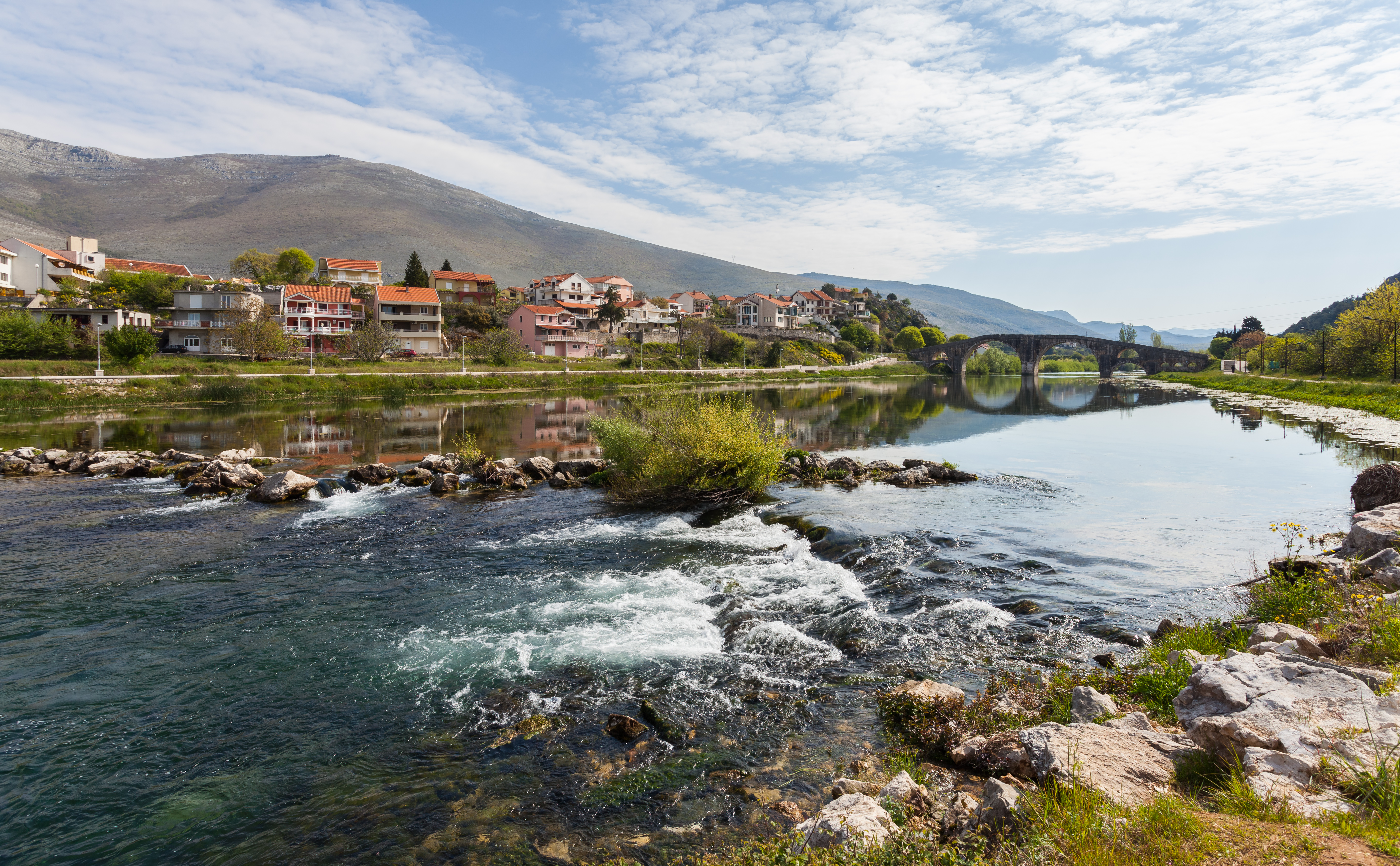 Arslanagić bridge, Trebinje, Bosnia and Herzegovina